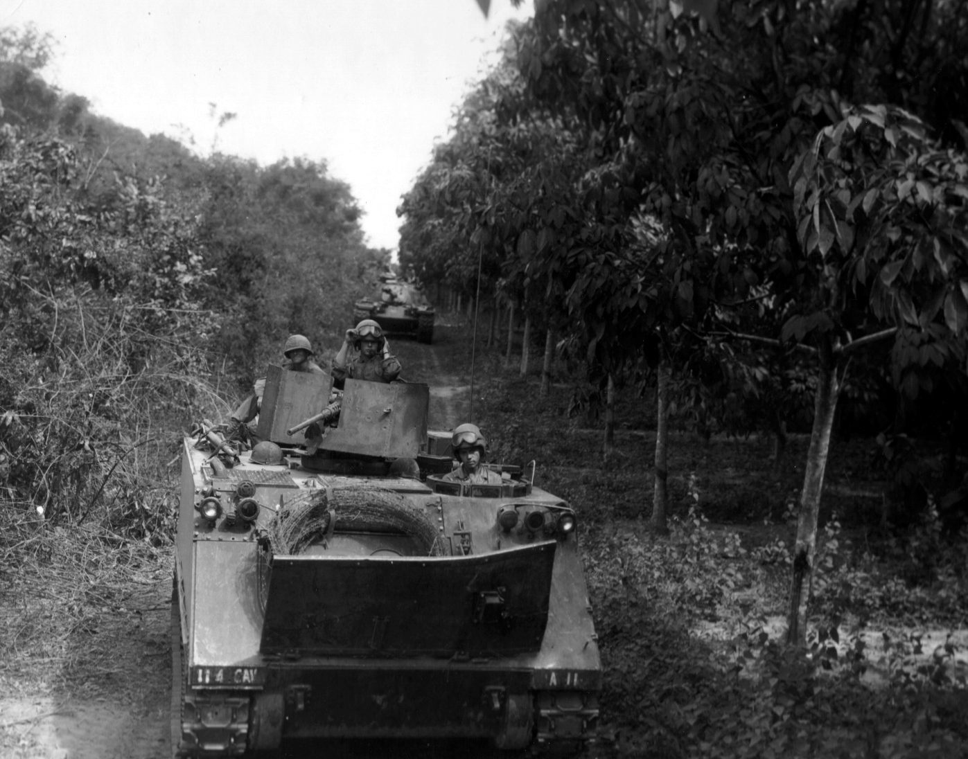 M113'S AND M4SA3 TANKS DEPLOY BETWEEN JUNGLE AND RUBBER PLANTATION IN OPERATION CEDAR FALLS.